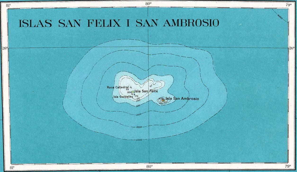 A map of the Desventuradas Islands